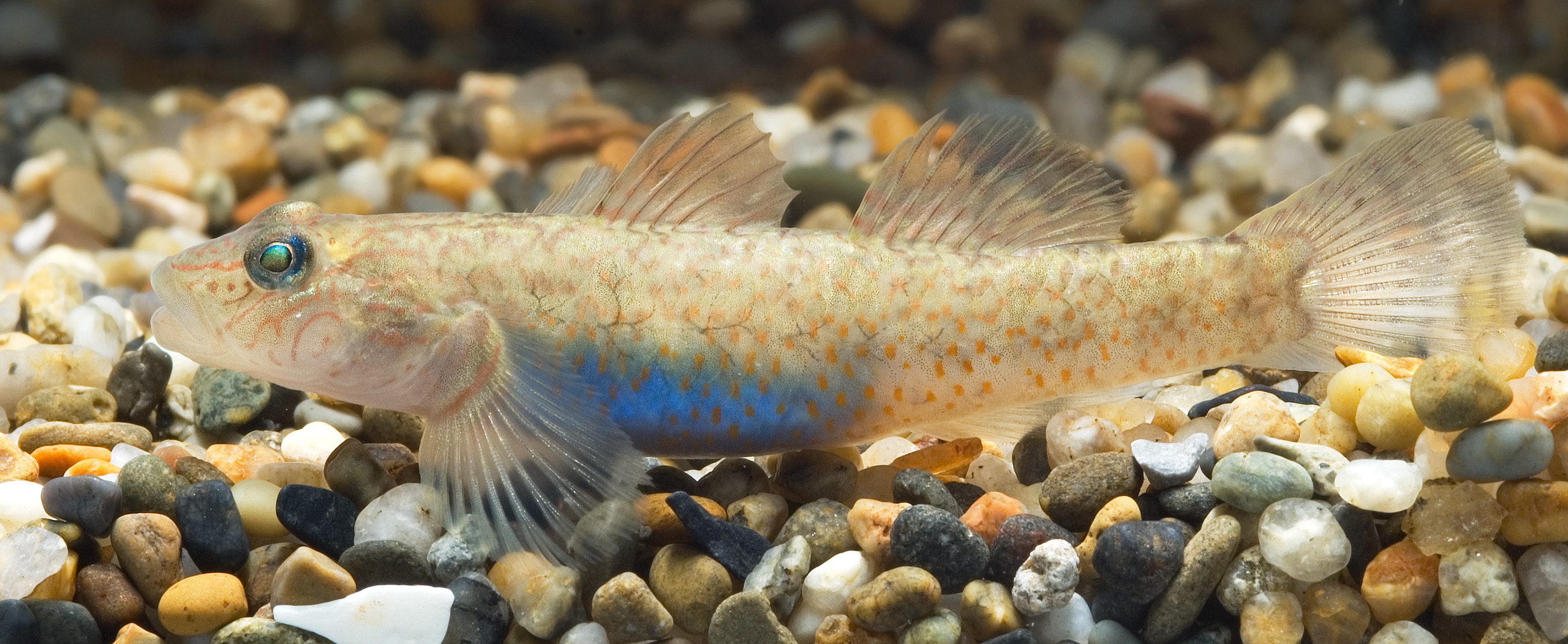 Shimayoshinobori, Rhinogobius sp. CB